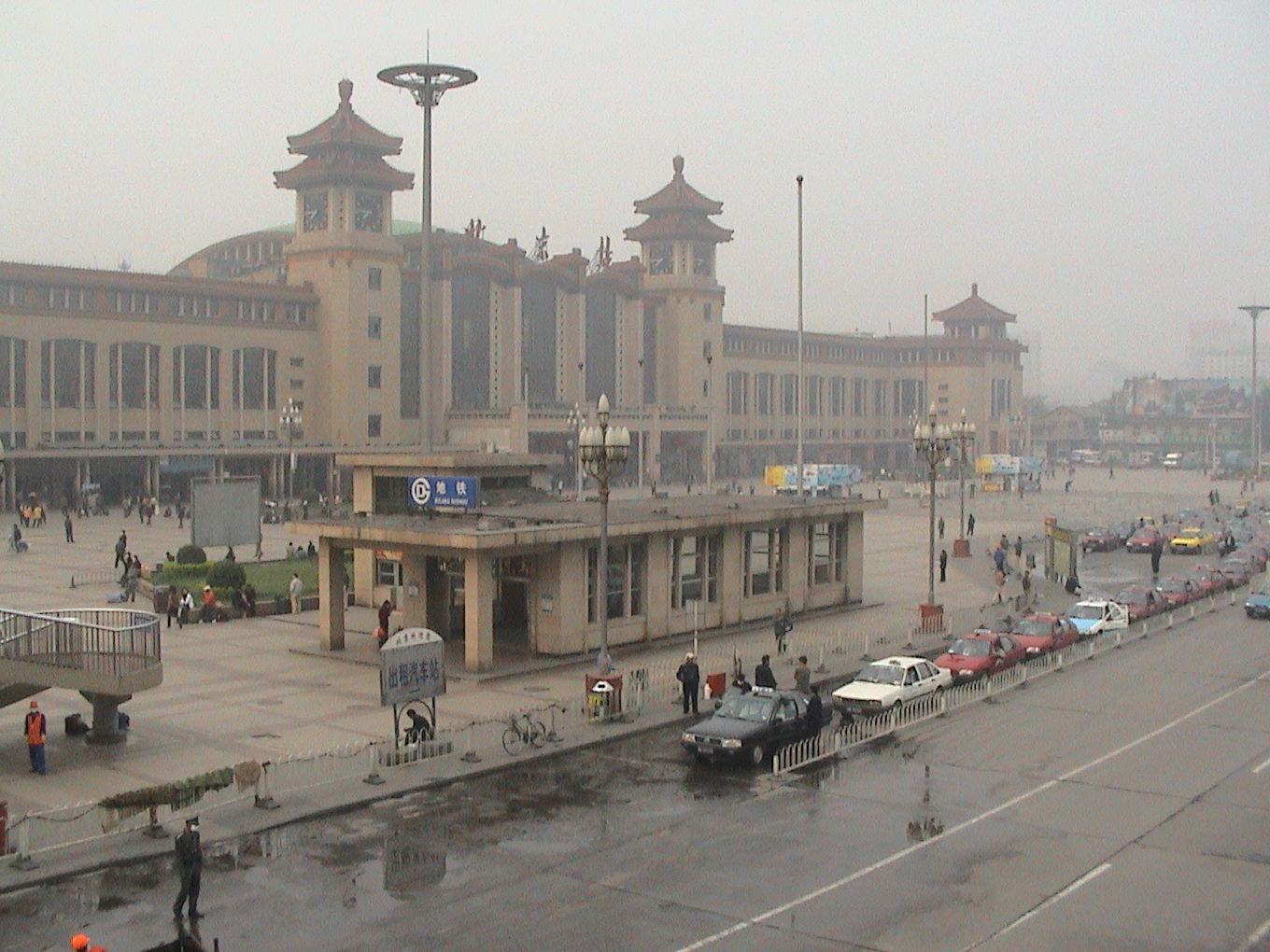 Beijing railway station